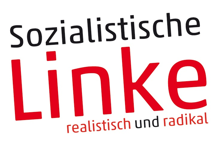 SL Logo Lang - realistisch & radikal